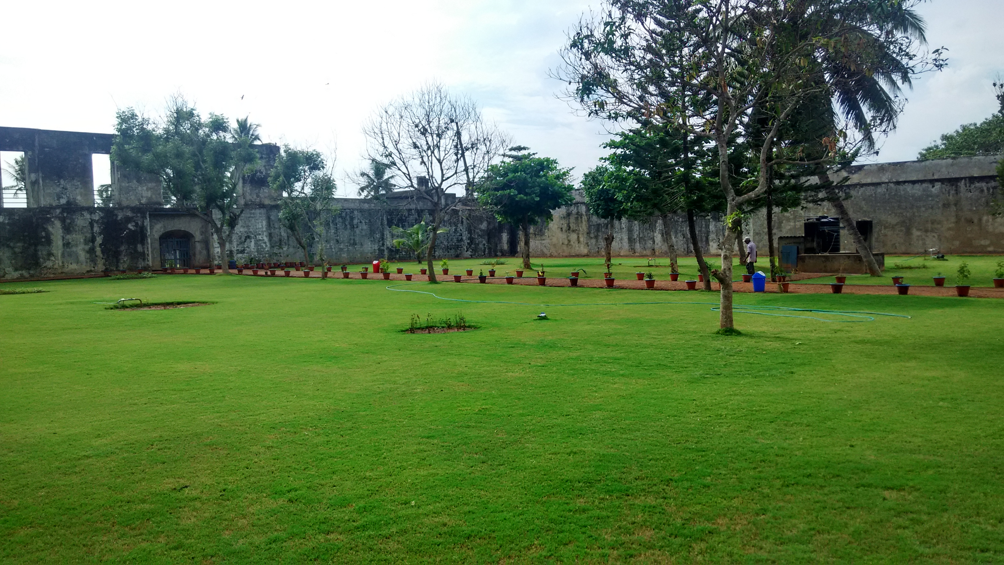 Anchuthengu Fort (also known as Anjengo Fort) was established by the British East India Company (EIC) in 1696 after the Queen of Attingal gave it permission in 1694 to do so. Located near the town of Anchuthengu, the fort served as the first signalling station for ships arriving from England.